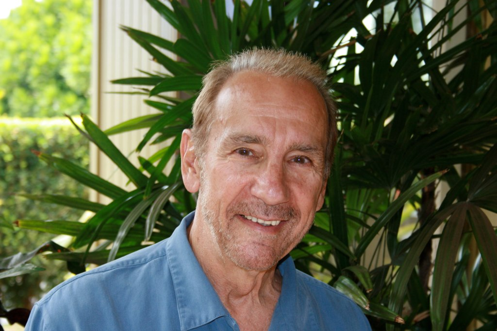 Charles Laquidara, American radio disc jockey, pioneer freeform FM rock broadcaster and Boston radio host for 30 years